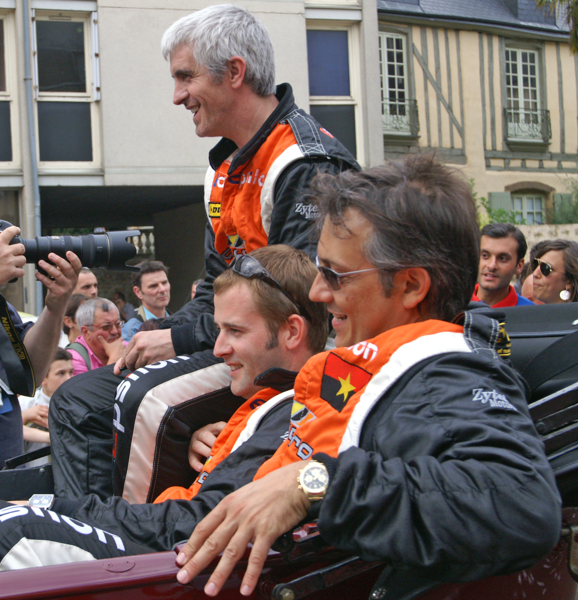 Juan Barazi, Stuart Moseley and Phil Bennett, drivers of Zytek 07S/2 for Team Barazi Epsilon, Drivers' Parade Le Mans 2009